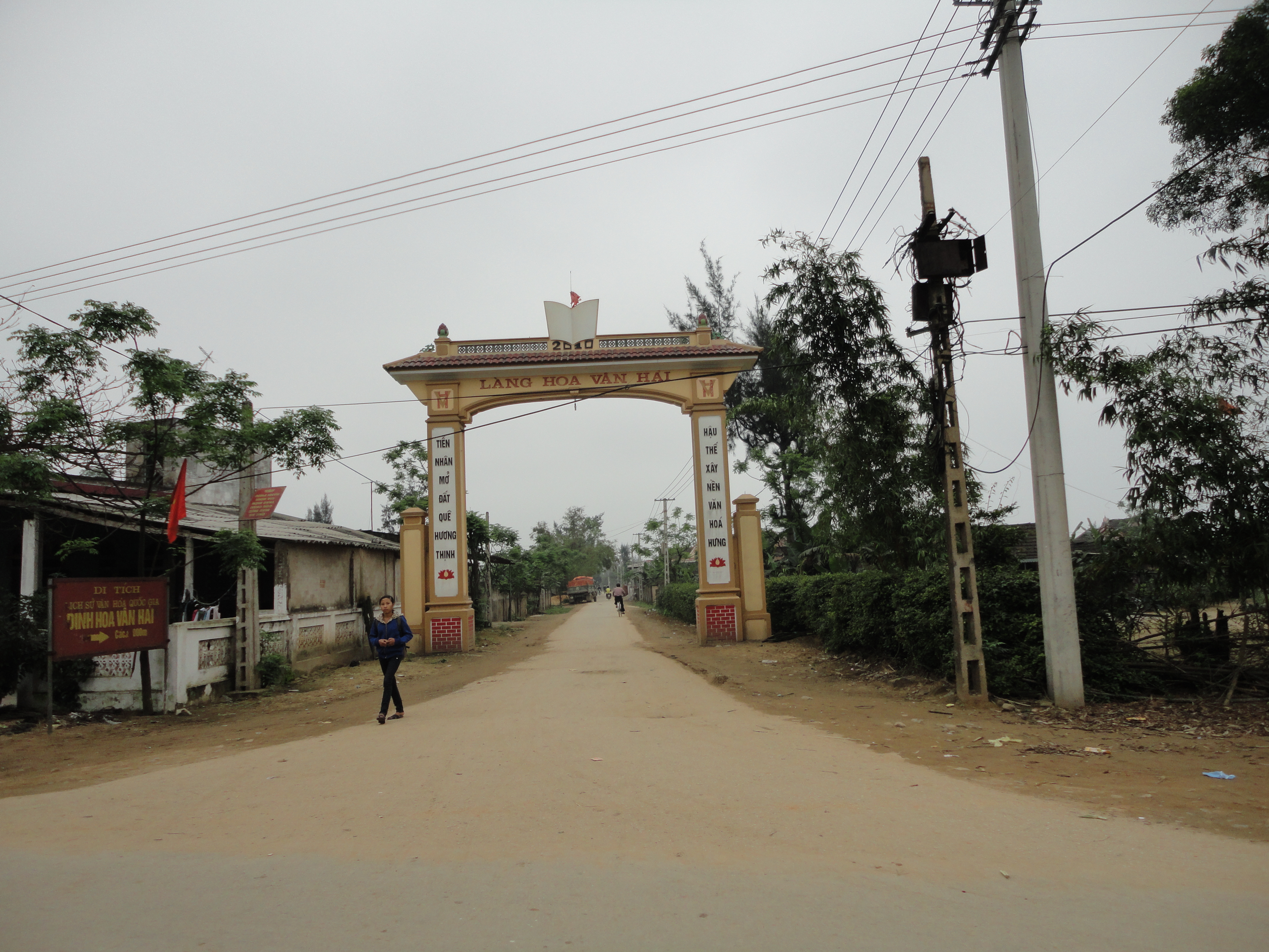 Vẩn Hải Cổ Đạm